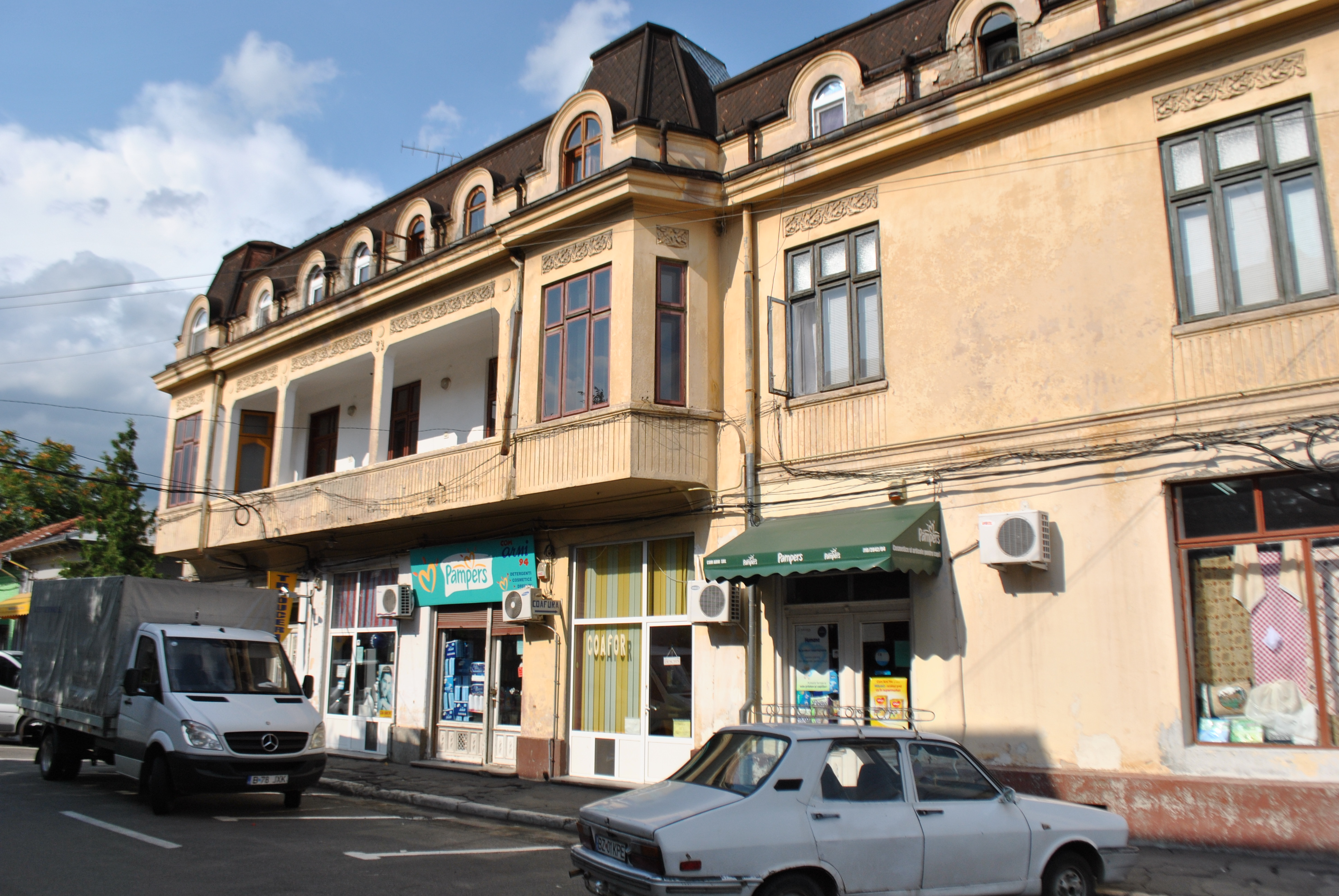 House on Ostrovului street, Buzău, RomaniaRomână: Casă de pe strada Ostrovului, Buzău, România